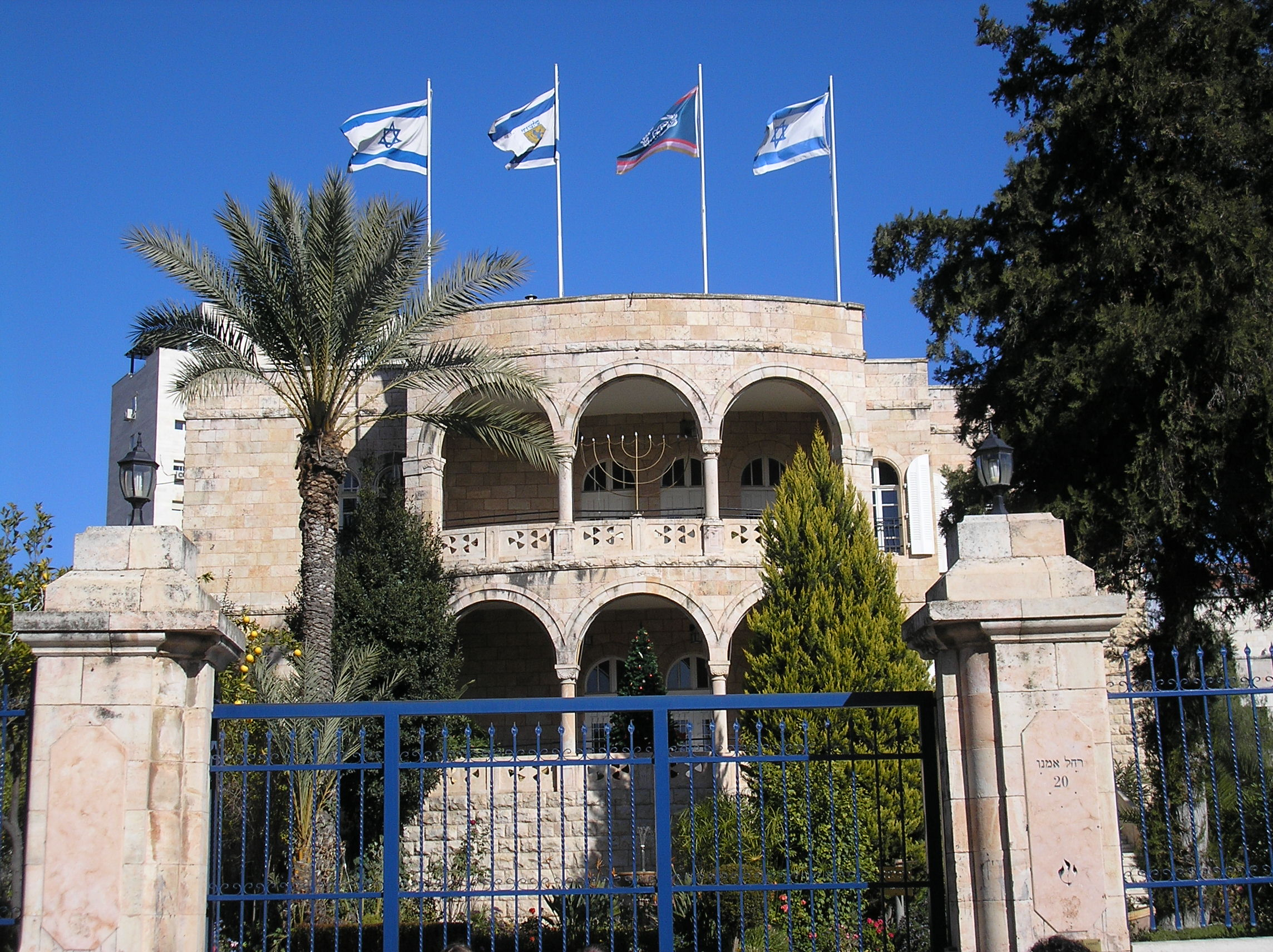 Vila Sherkessi, International Christian Embassy Jerusalem